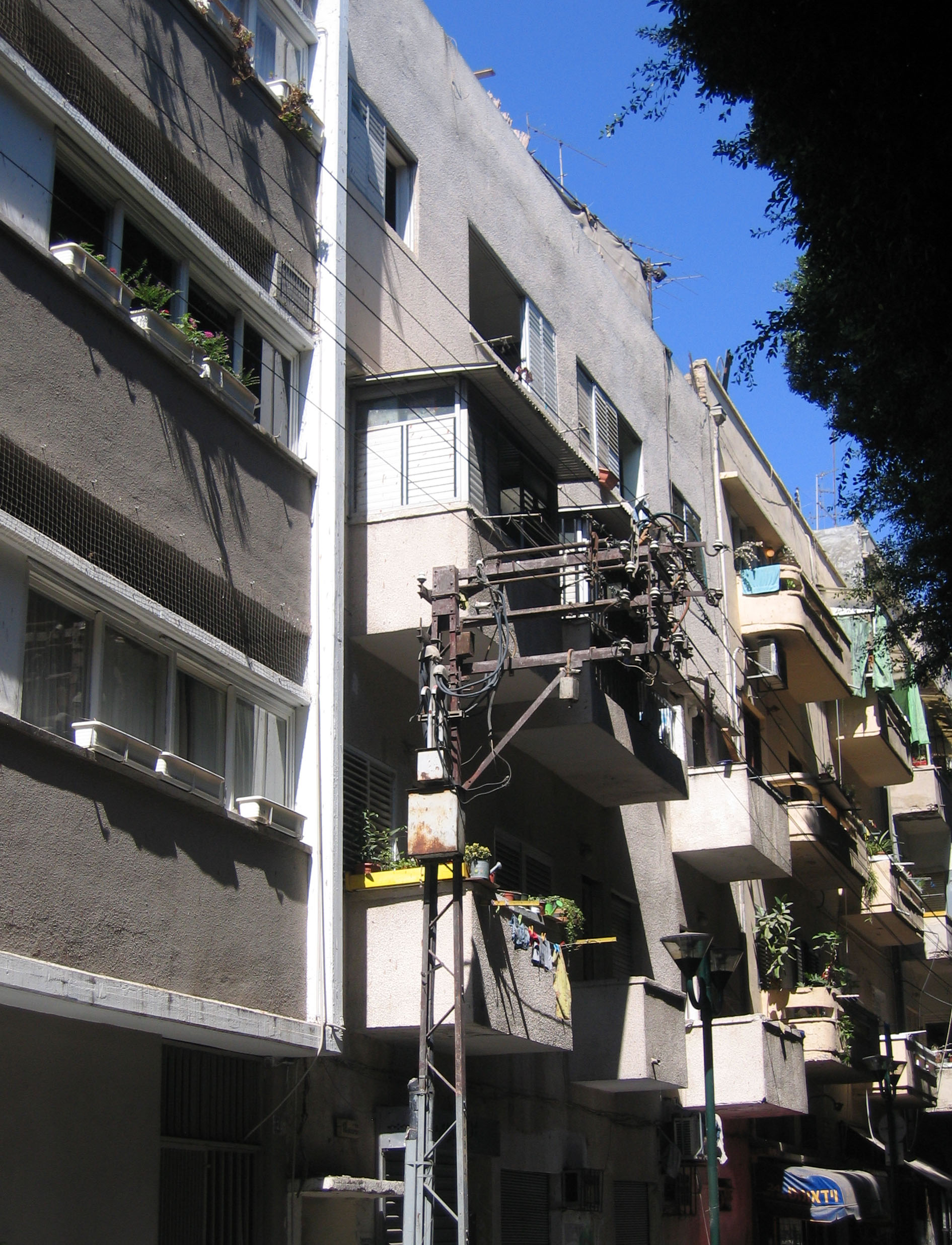 Washington avenu, Florentin.